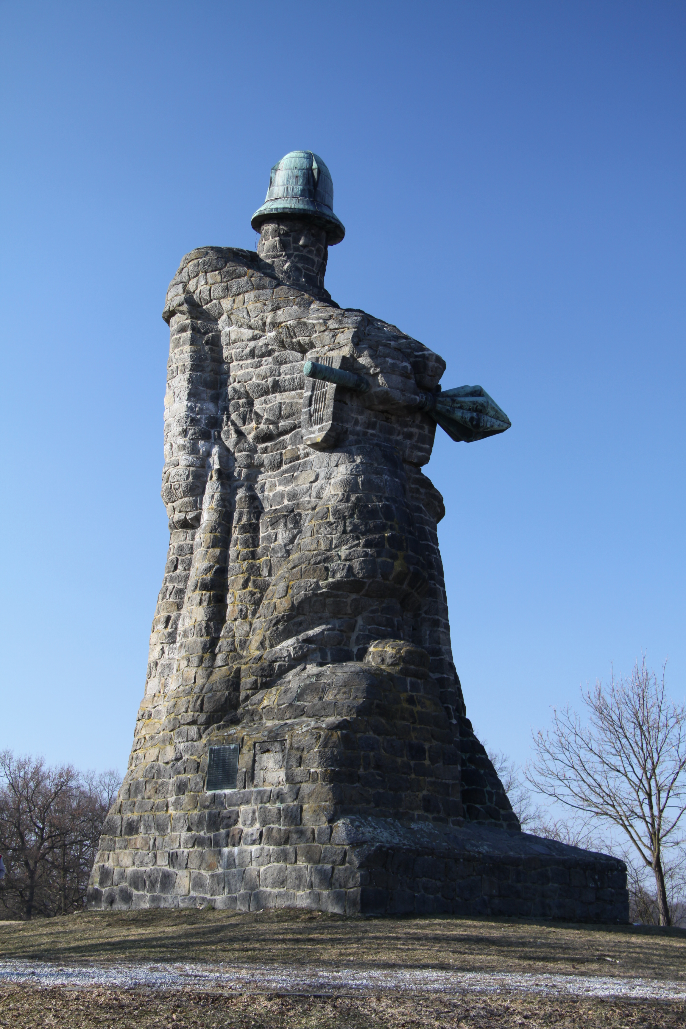 Žižka memorial near Sudoměř village, Strakonice district, Czech Republic - Google Maps - Google Earth